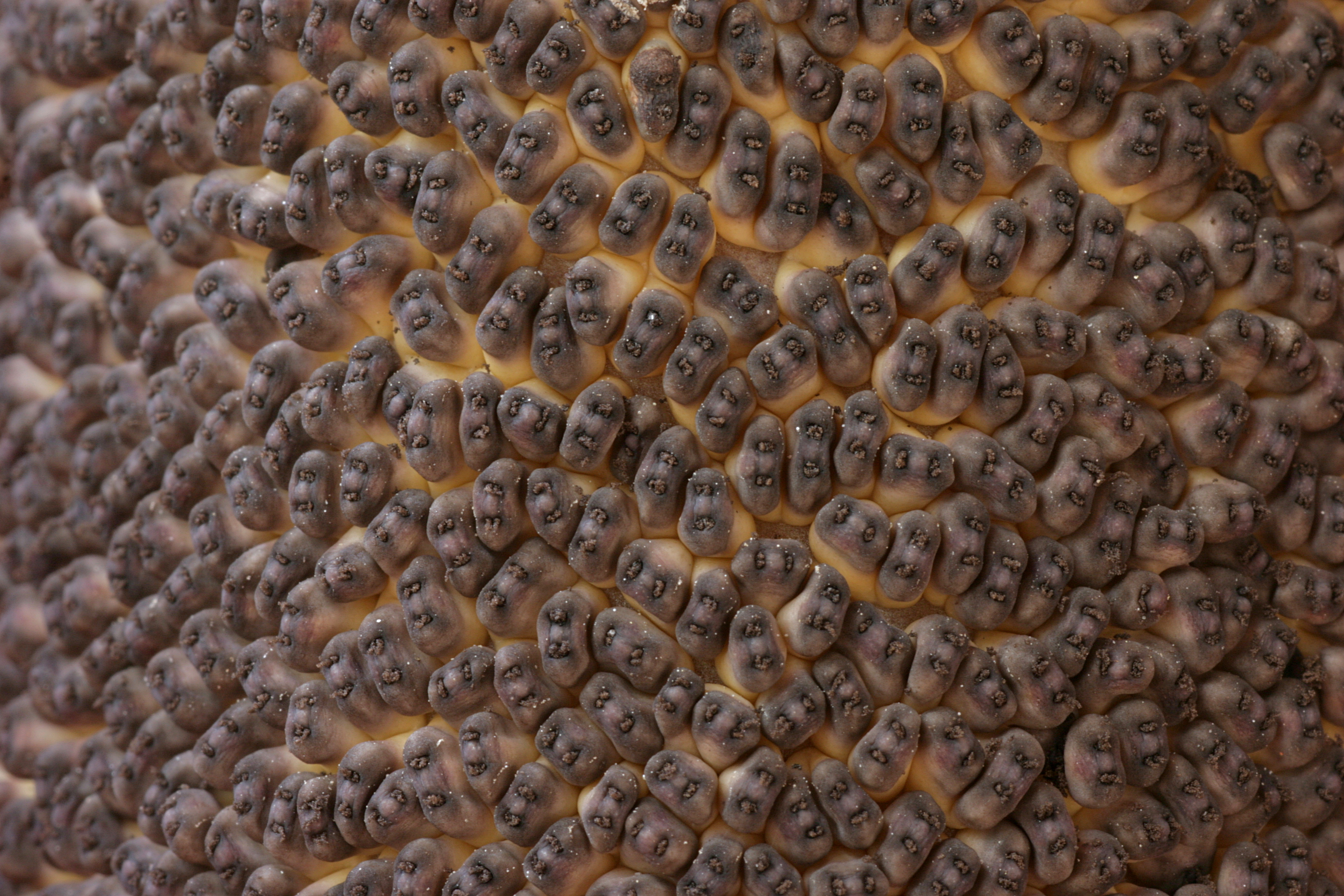 Male flowers of Amorphophallus konjac (already withered), de: Männliche Blüten von Amorphophallus konjac (bereits verblüht)